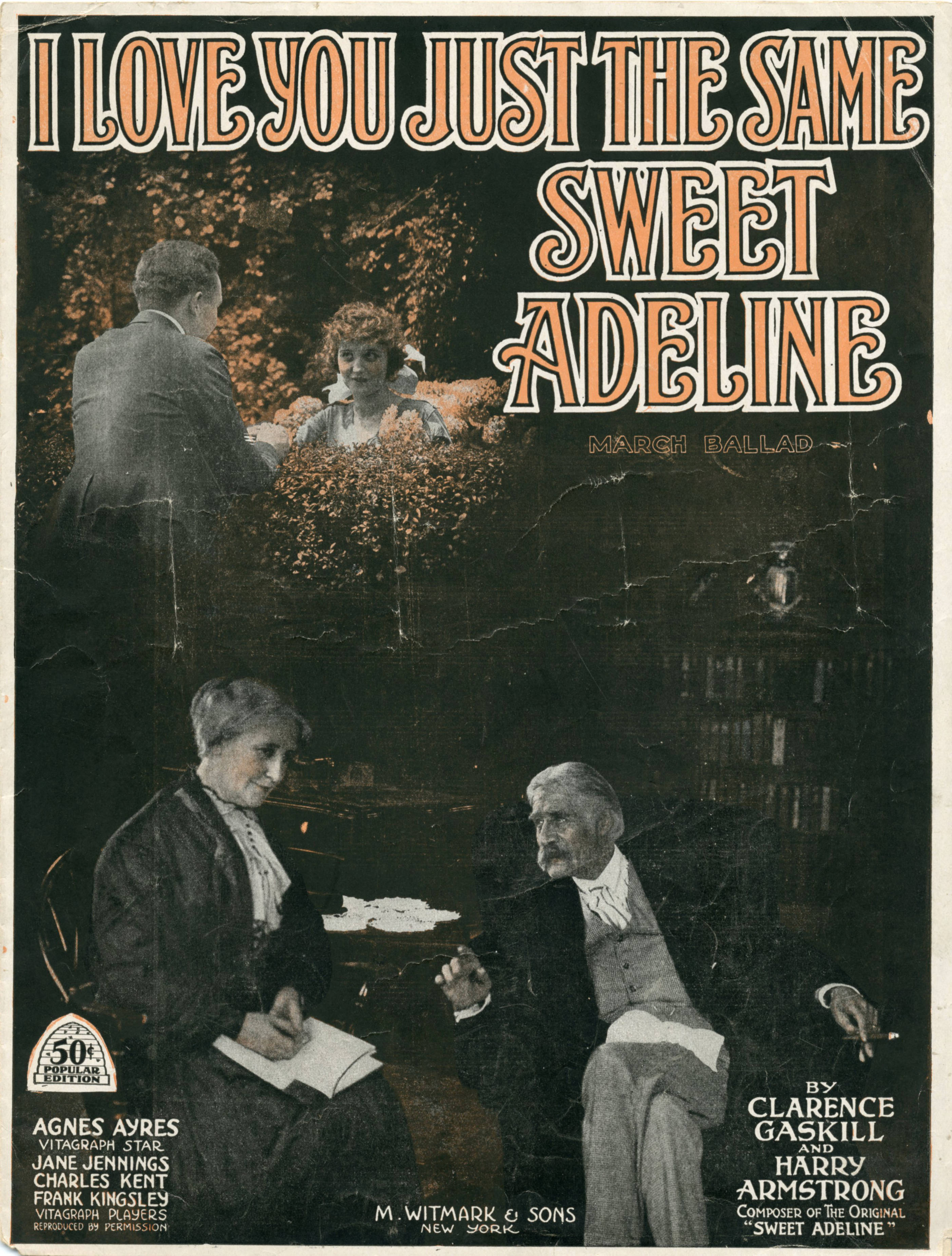 Sheet music cover: "I Love You Just The Same : Sweet Adeline" 1 vocal score (3 p.) ; 32 cm. Illustrated cover with images of Agnes Ayres, Jane Jennings, Charles Kent, and Frank Kingsley.